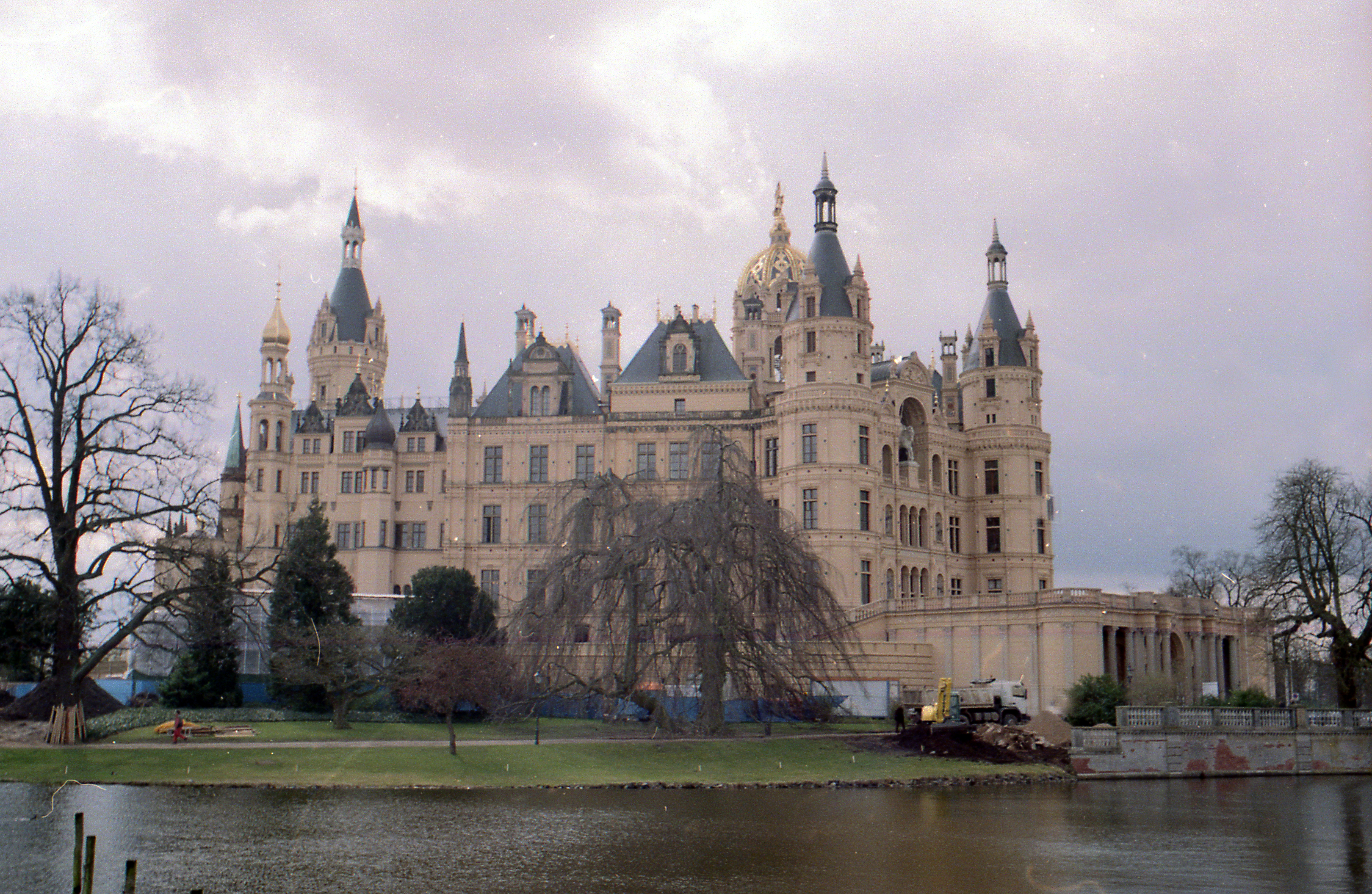 Schwerin Castle, Mecklenburg-Vorpommern, Germany